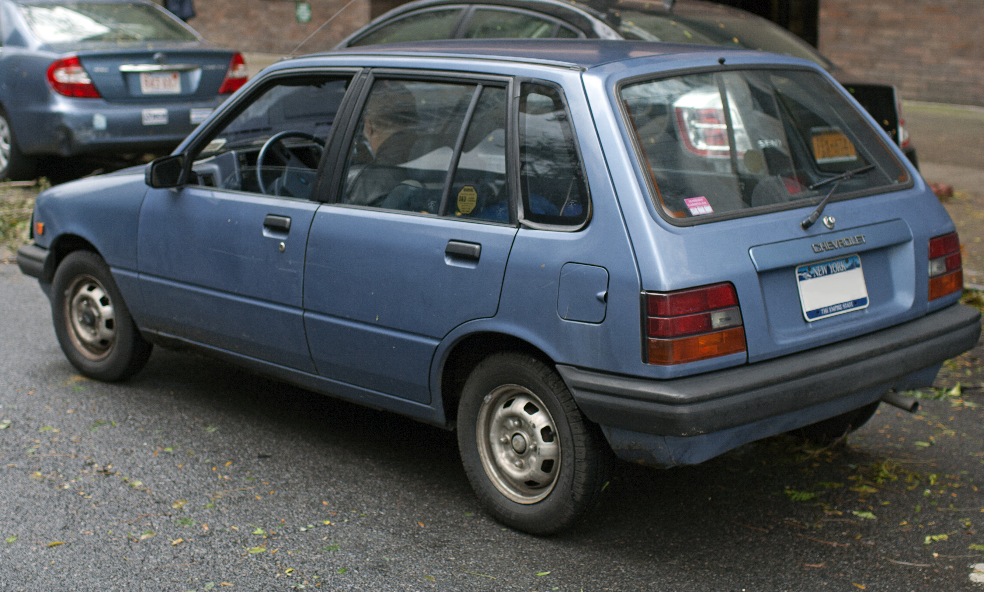 1986 Chevrolet Sprint Plus, that is to say, the five-door version.